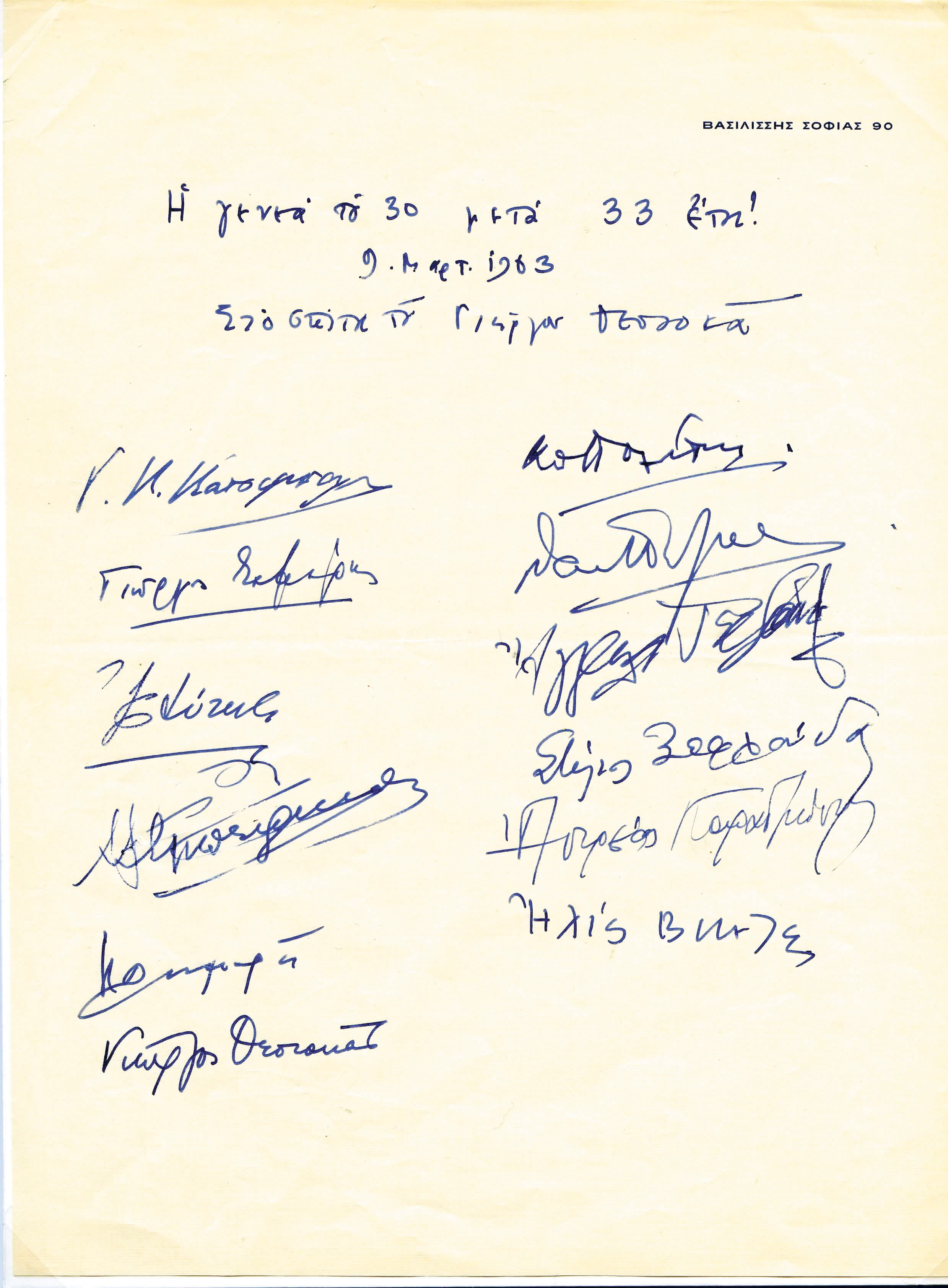 The signatures of several Greek writers from the "Generation of the '30s," including those of Nobel laureats George Seferis and Odysseas Elytis. From a diner party organised by Yiorgos Theotokas at his home in Athens on Mar 9, 1963. The original is kept by the Ghika Gallery, Benaki Museum, Atnens, Greece.